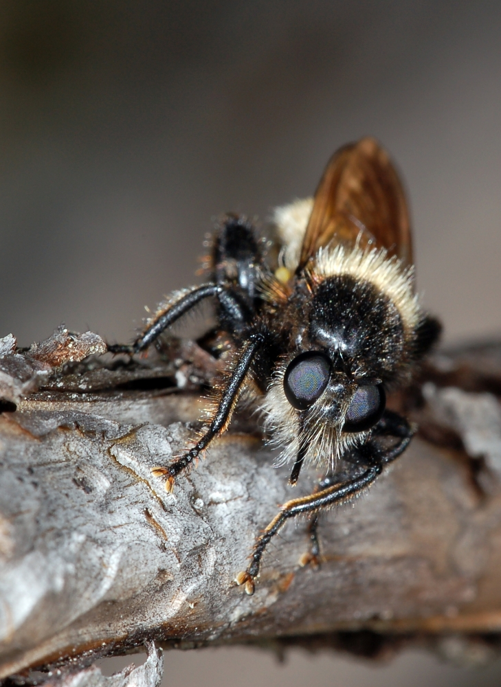 Laphria flava, Fiescheralp, Switzerland